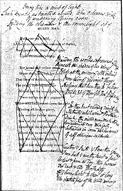 This marked-up copy is Shelly's own first edition of Queen Mab as annotated by himself. The original manuscript is held in the Ashley Library in the British Library.